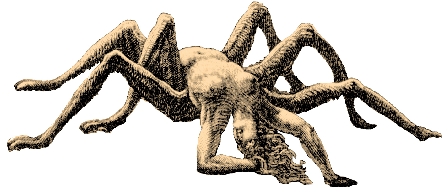 Arachne - Illustration by Gustave Doré of 1861 edition of Dante's Inferno.